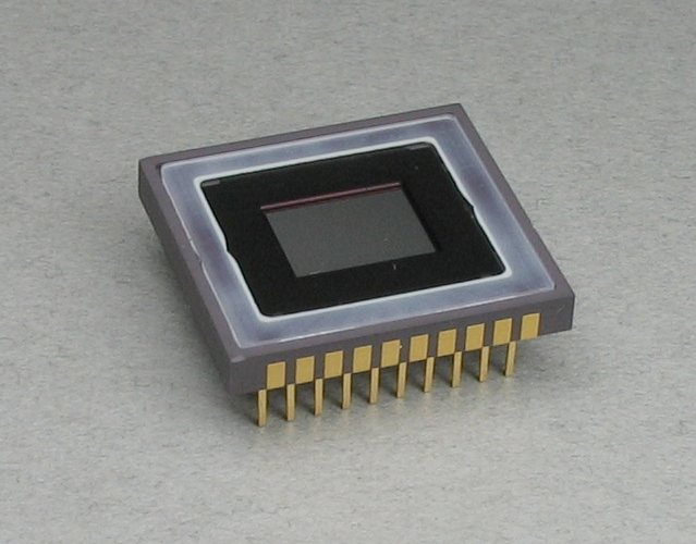 Photograph of CCD image sensor, 2/3 inch size. Croped & resized.